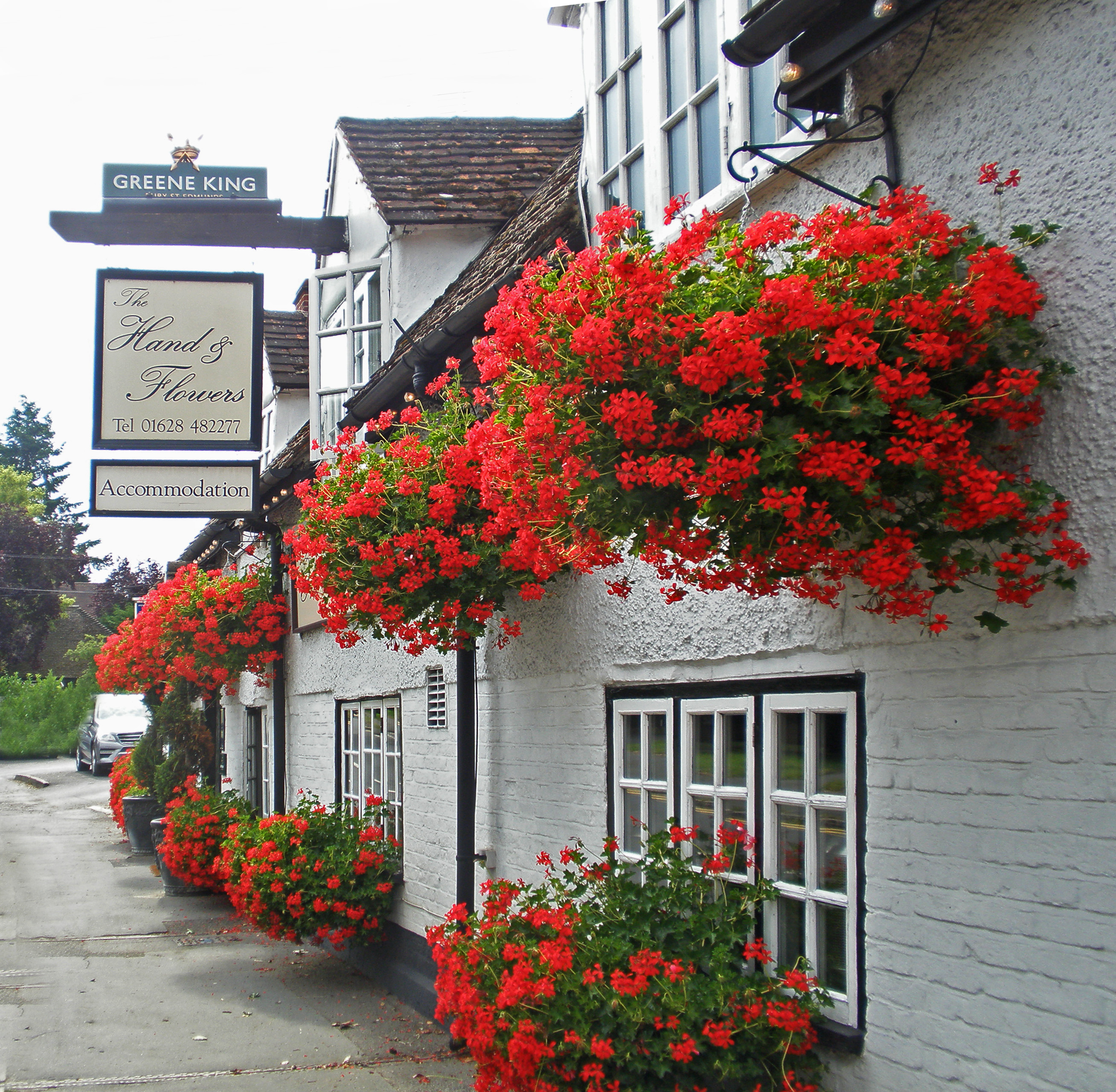 The Hand & Flowers is a gastropub in Marlow that opened in 2005. Owned and operated by Tom Kerridge and his wife Beth Cullen-Kerridge, it gained its first Michelin star within a year of opening and a second in the 2012 list, making it the first pub to hold two Michelin stars. It was named the AA Restaurant of the Year for 2011–12. Reviews from food critics have been mixed.